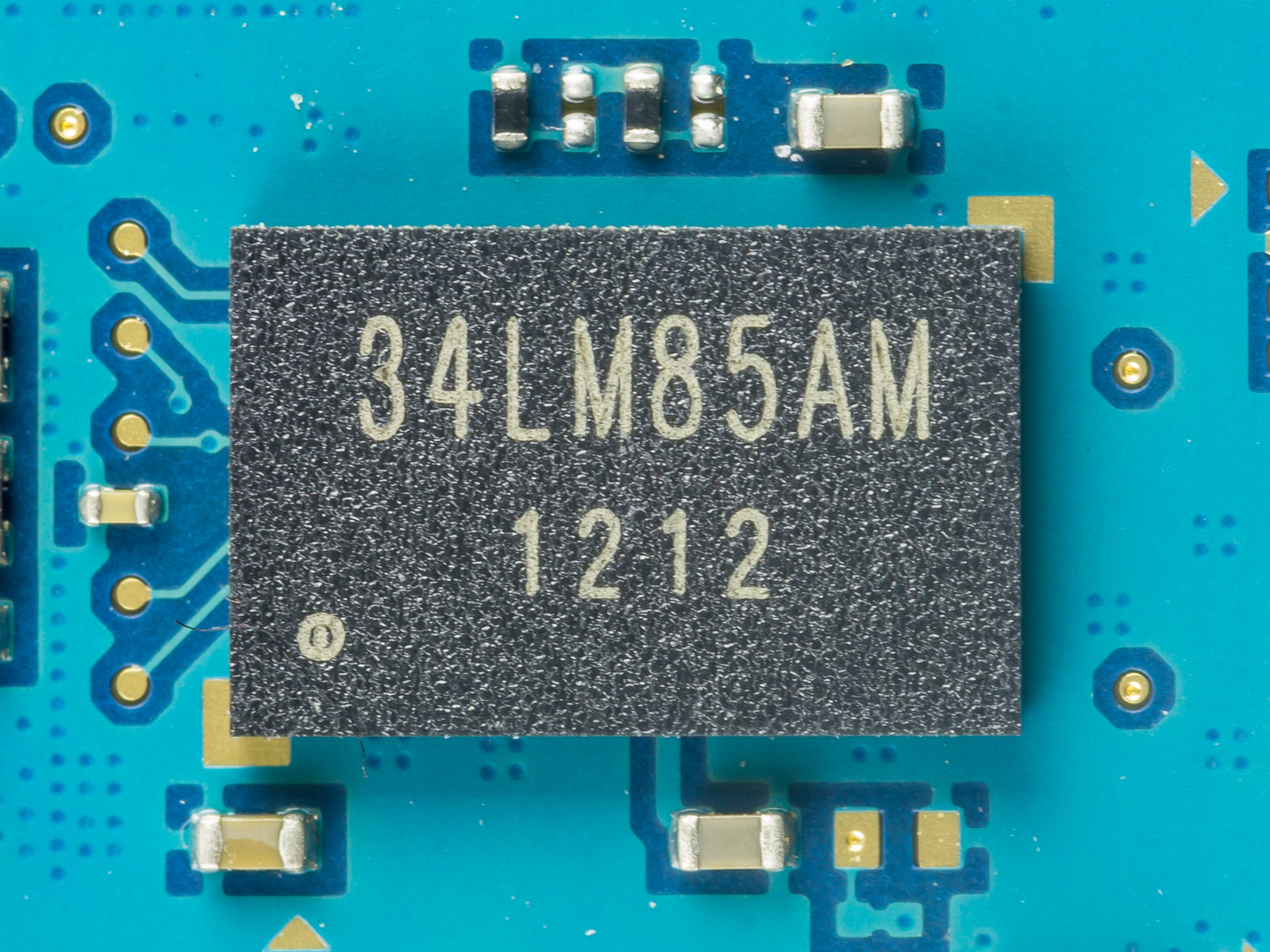 Samsung Galaxy Tab 2 10.1 - Doestek 34LM85AM -DOESTEK DTC34LM85AM(R) - +3.3V LVDS 24Bit Flat Panel Display (FPD) Transmitter - 135MHz